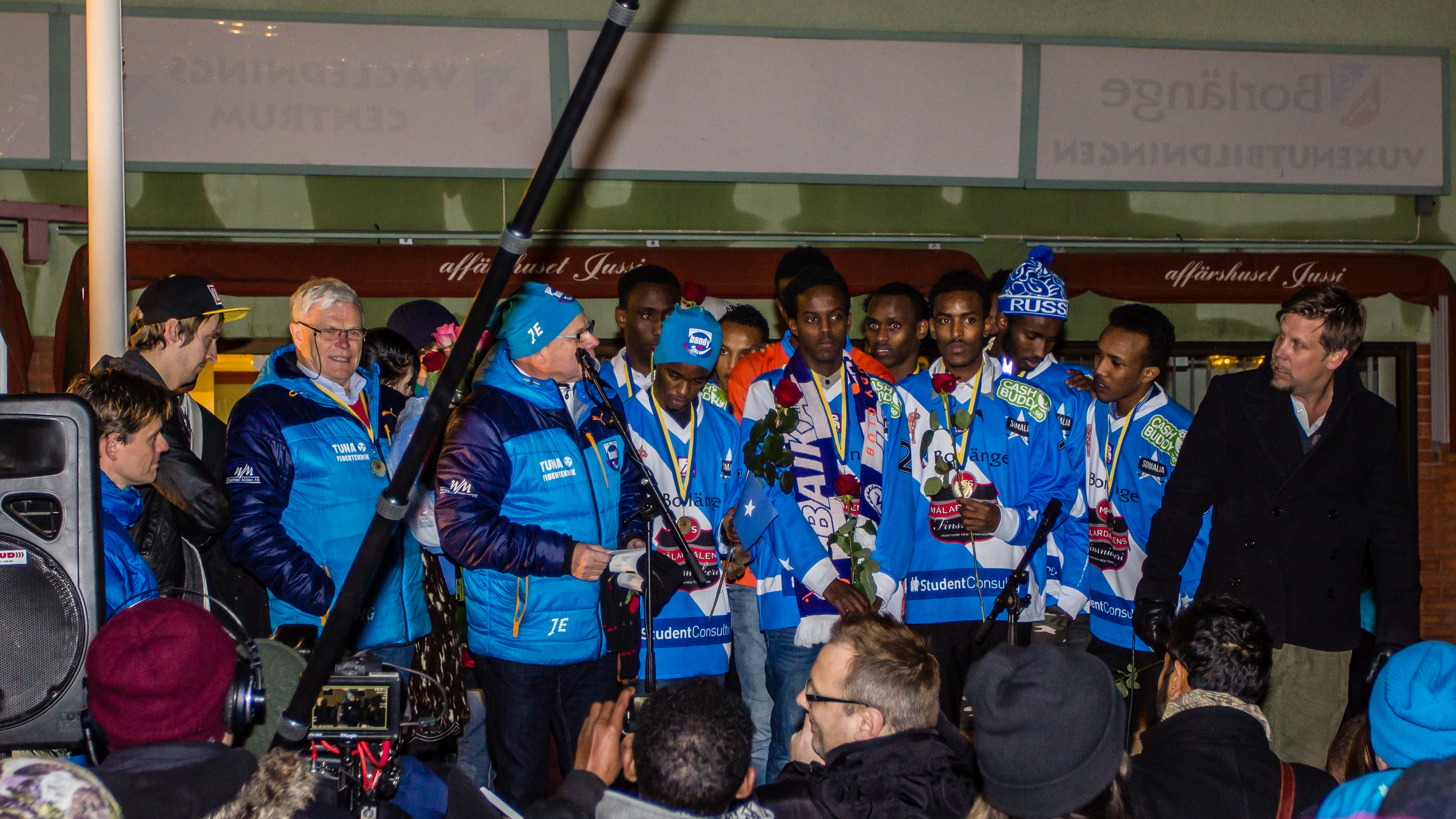 Somalia national bandy team at reception in Borlänge after World Championships 2014, together with Filip and Fredrik. They finished last, but became world celebrities.